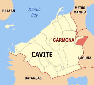 Map of Cavite showing the location of Carmona